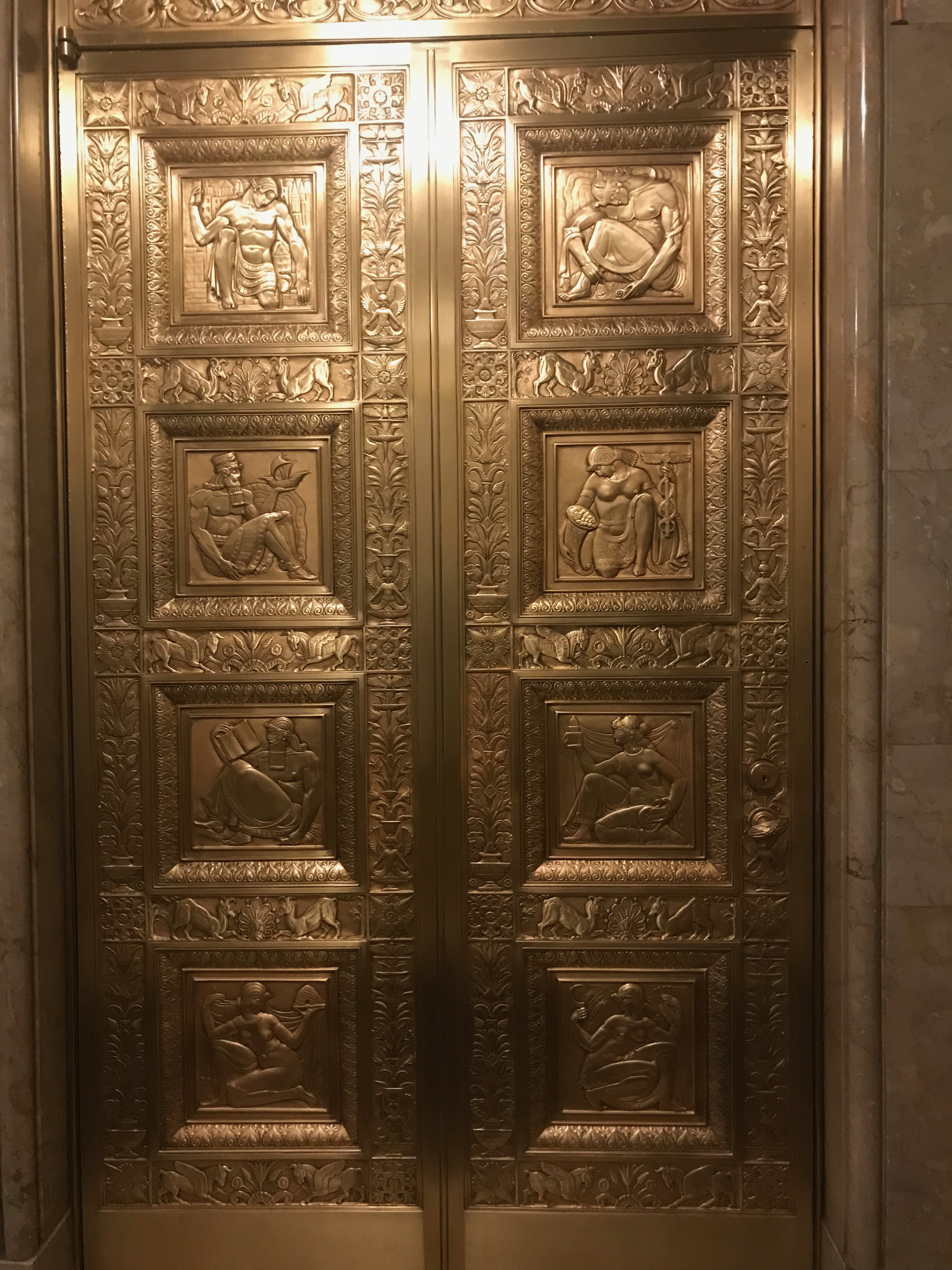 Gold gilt door of the lobby elevator in the Fred F. French building in New York City on 5th Avenue, 45th street corner